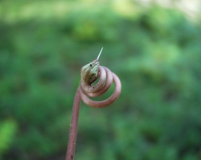 (en) Cyclamen purpurascens, a photography originating of the internet site The accord of the autor, H. Brisse, is here. (fr) (Cyclamen purpurascens), une photographie issue du site internet L'accord de l'auteur, H. Brisse, se situe ici.